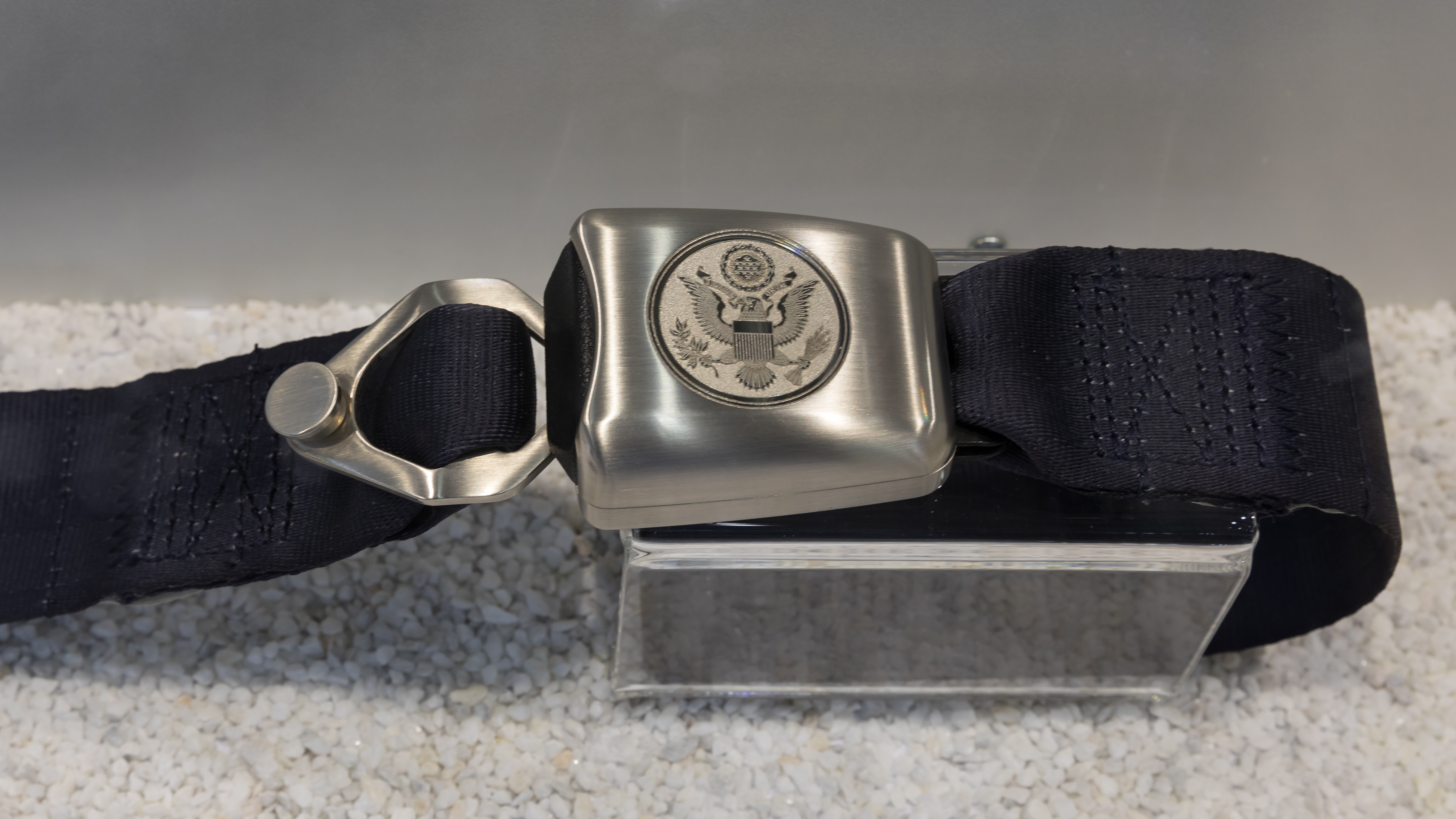 Passenger Experience Week 2018, Hamburg